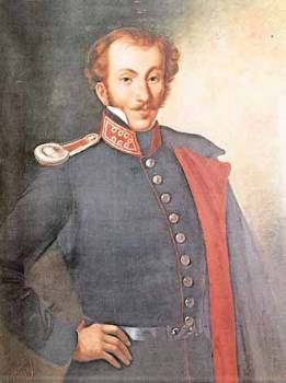 Portrait of Dimitrios Ypsilantis, hero of the Greek War of Independence